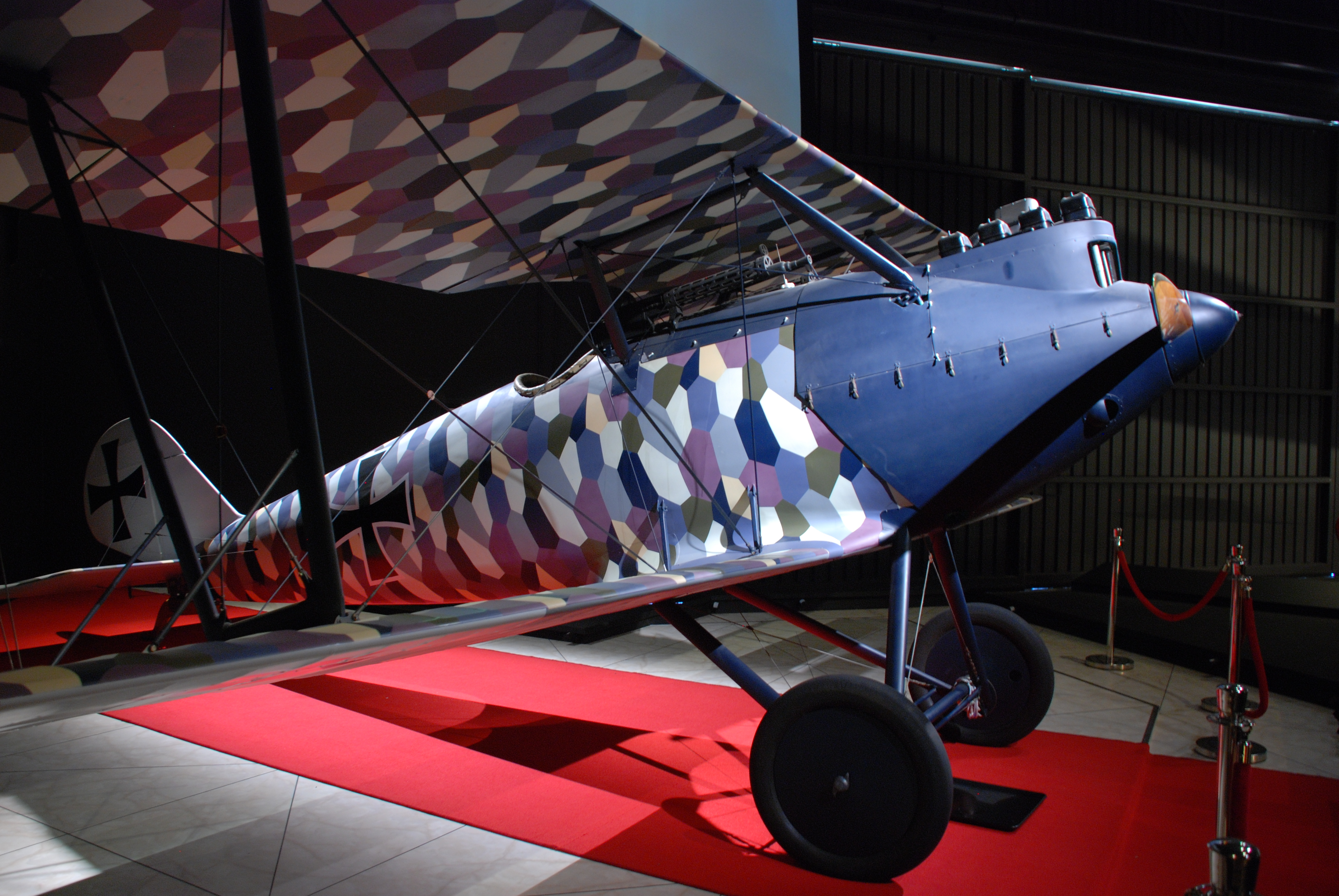 This aircraft is a replica that was built for the movie The Blue Max. It is in flying condition.